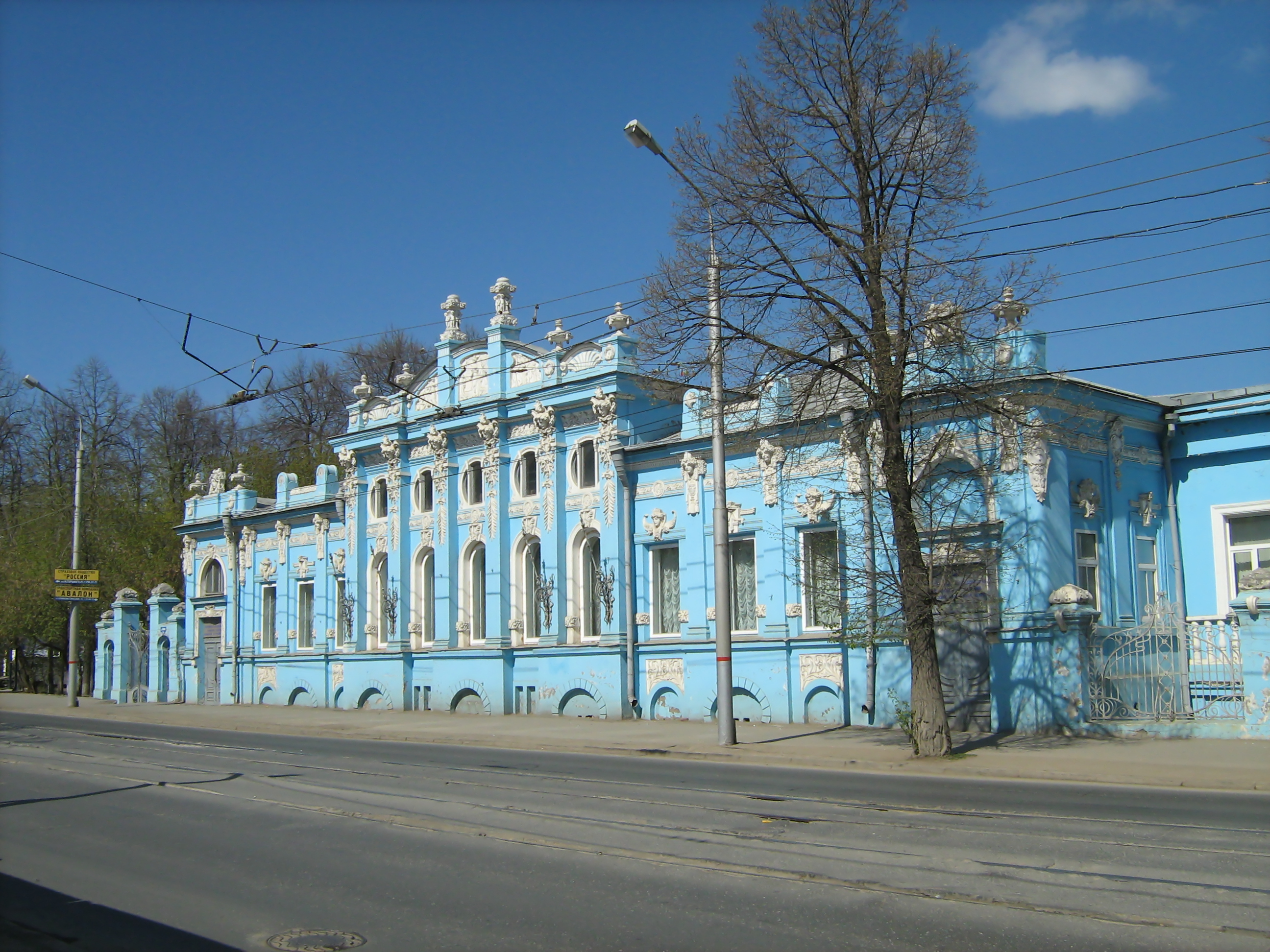 Gribushin House, Perm.